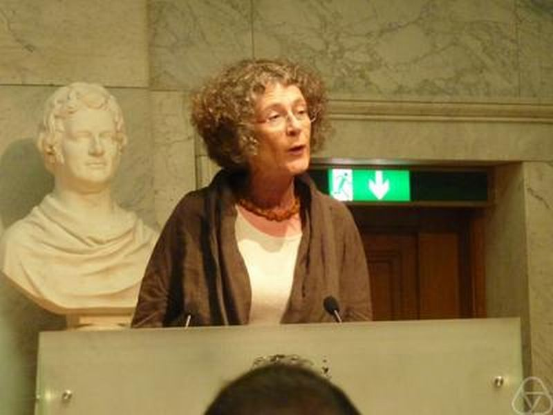 Ragni Piene, Abel Prize ceremony 2012